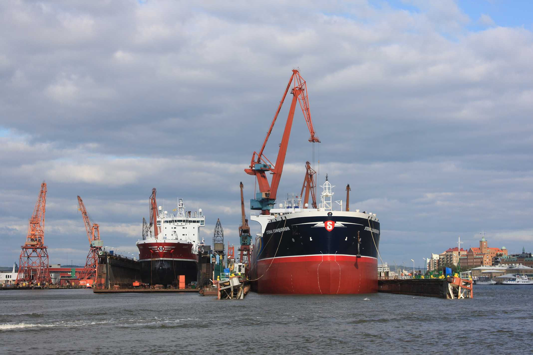 Floating drydock in Göteborg